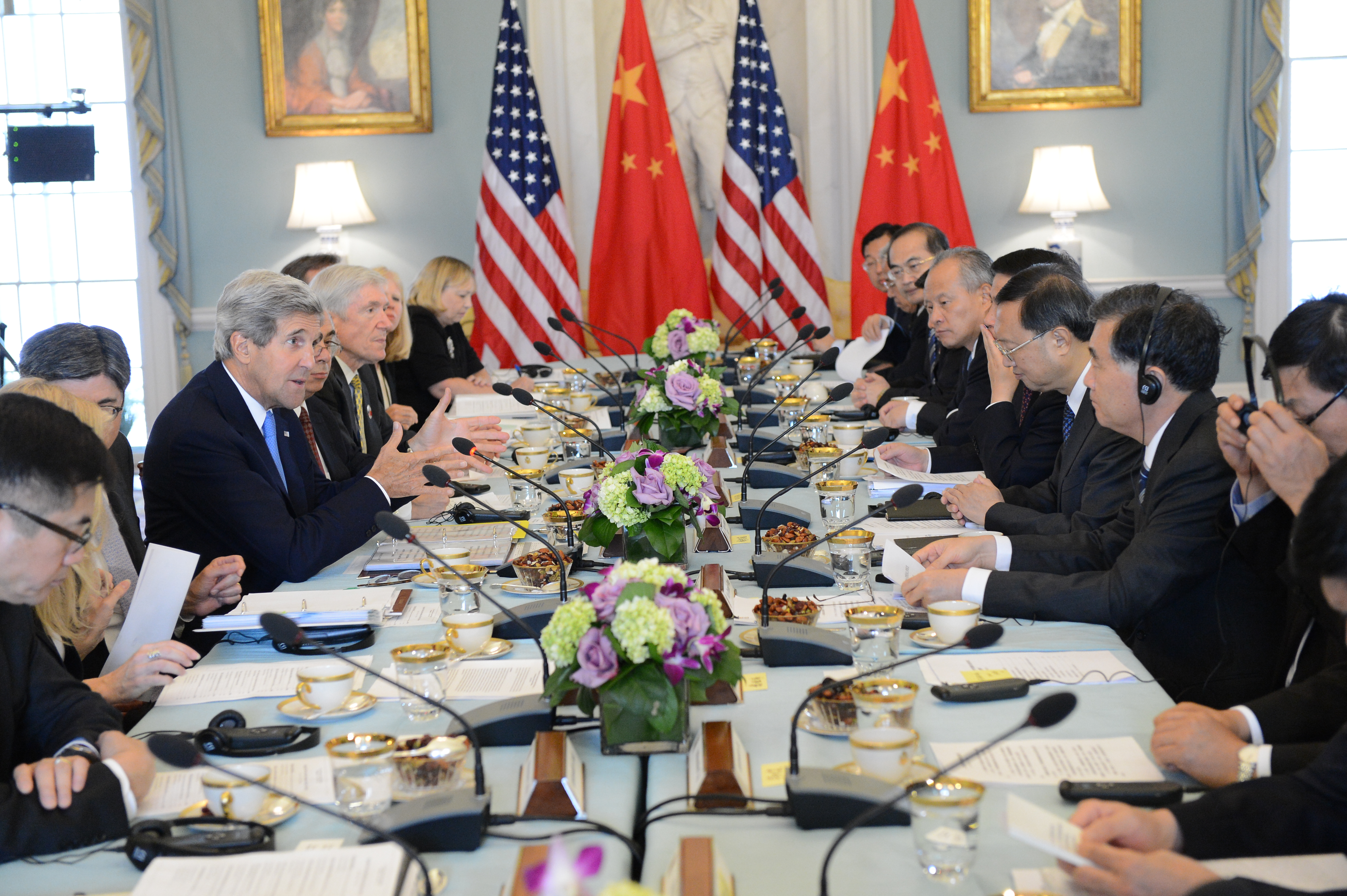 U.S. Secretary of State John Kerry, U.S. Secretary of Treasury Jacob Lew, Chinese State Councilor Yang, and Chinese Vice Premier Wang participate in the U.S.-China Economic and Strategic Dialogue Joint Session on Energy Security at the U.S. Department of State in Washington, DC on July 10, 2013. [State Department photo/ Public Domain]